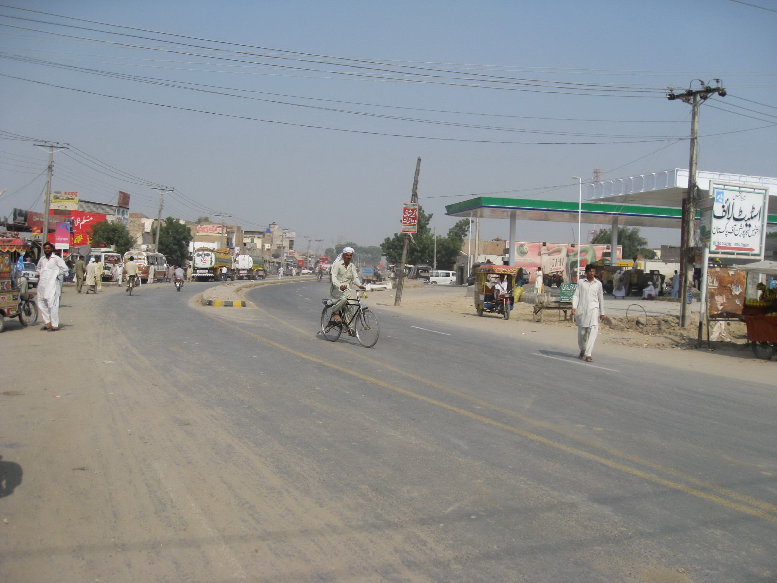 Vehari Road in Hasilpur